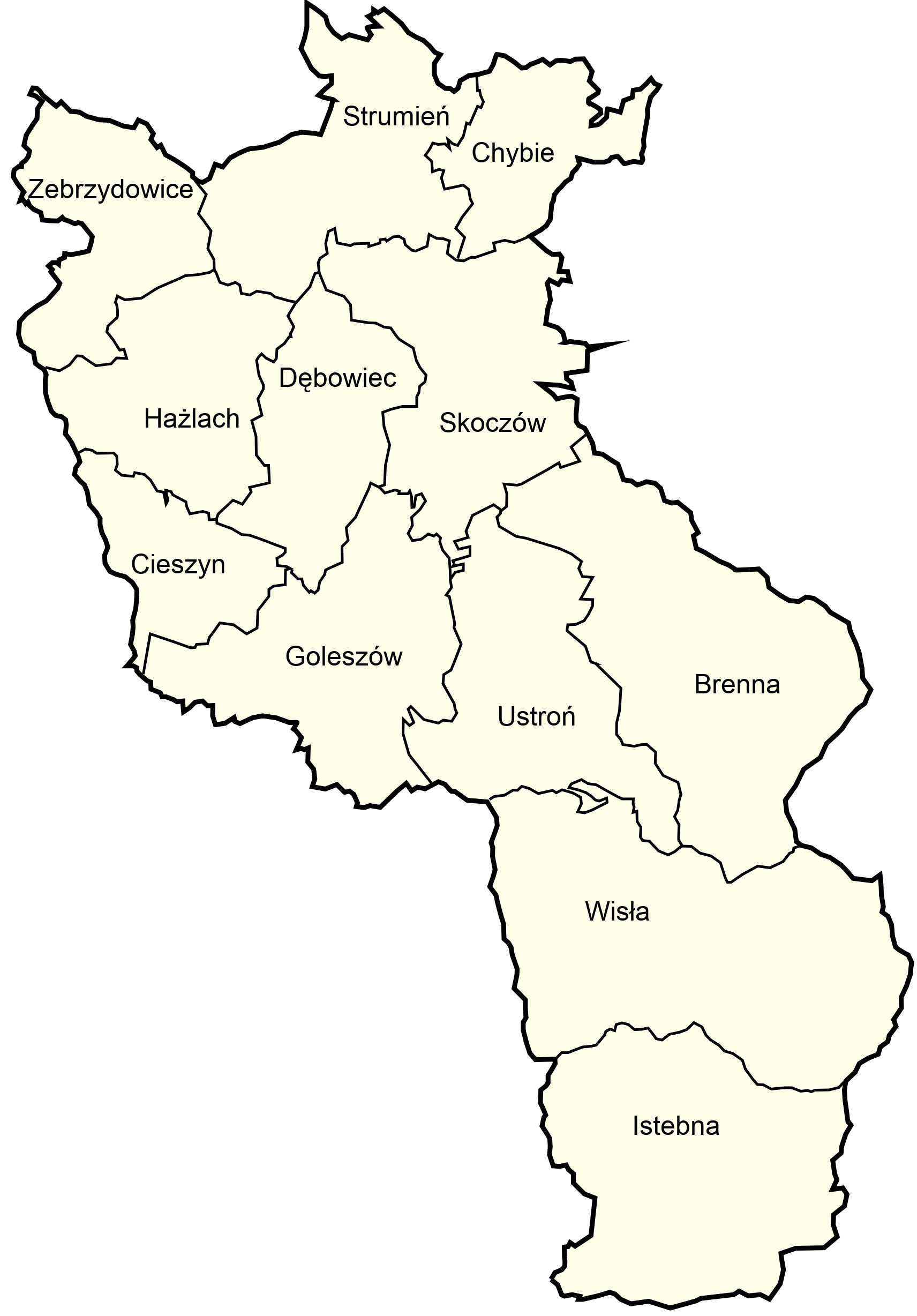 Gminas of Cieszyn county